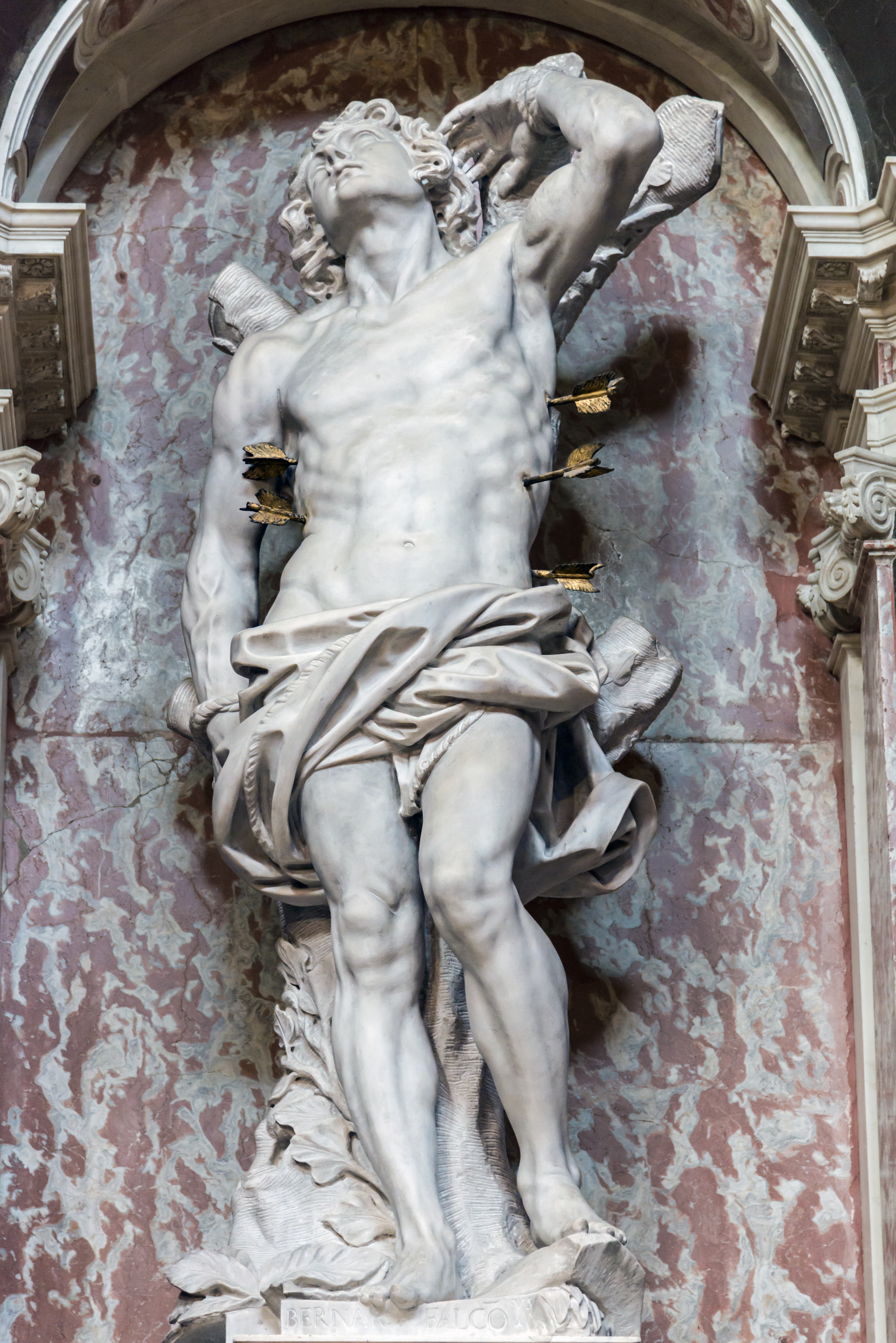 Church Santa Maria degli Scalzi Venice. Chapel Venier - The statue of the altarpiece representing Saint Sebastian by Bernardo Falconi (1669)